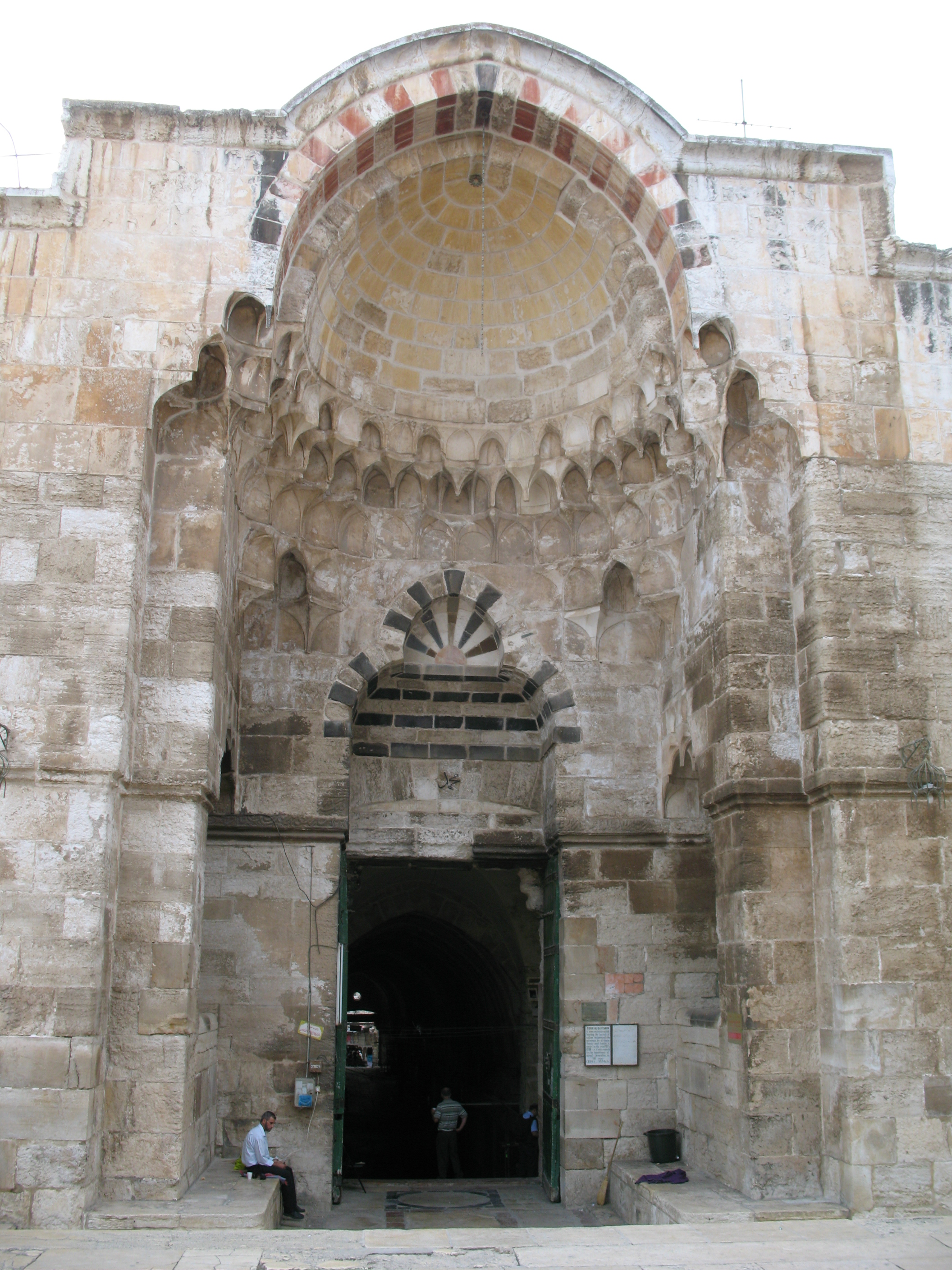 Gates of old city of jerusalem Palestine